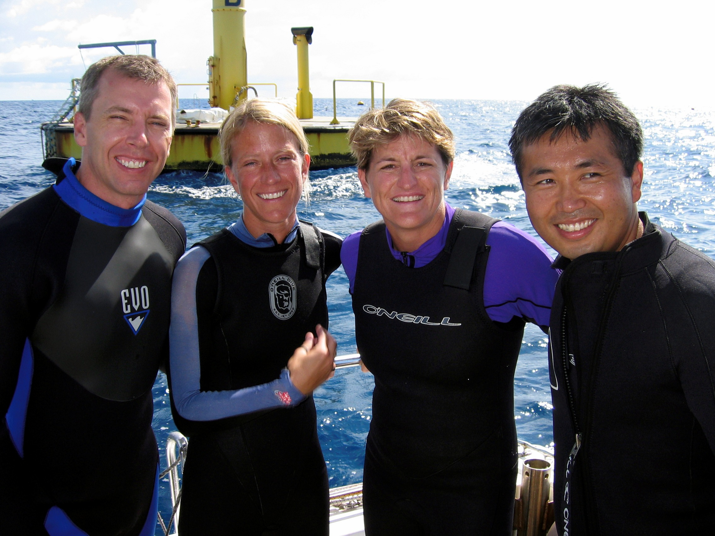 The crew of NEEMO 10, a NASA-NOAA undersea exploration mission, prior to the beginning of the mission in July 2006. Left to right: NASA astronauts Andrew J. Feustel and Karen L. Nyberg; Karen Kohanowich, deputy director of NOAA's National Undersea Research Program; and JAXA astronaut Koichi Wakata.